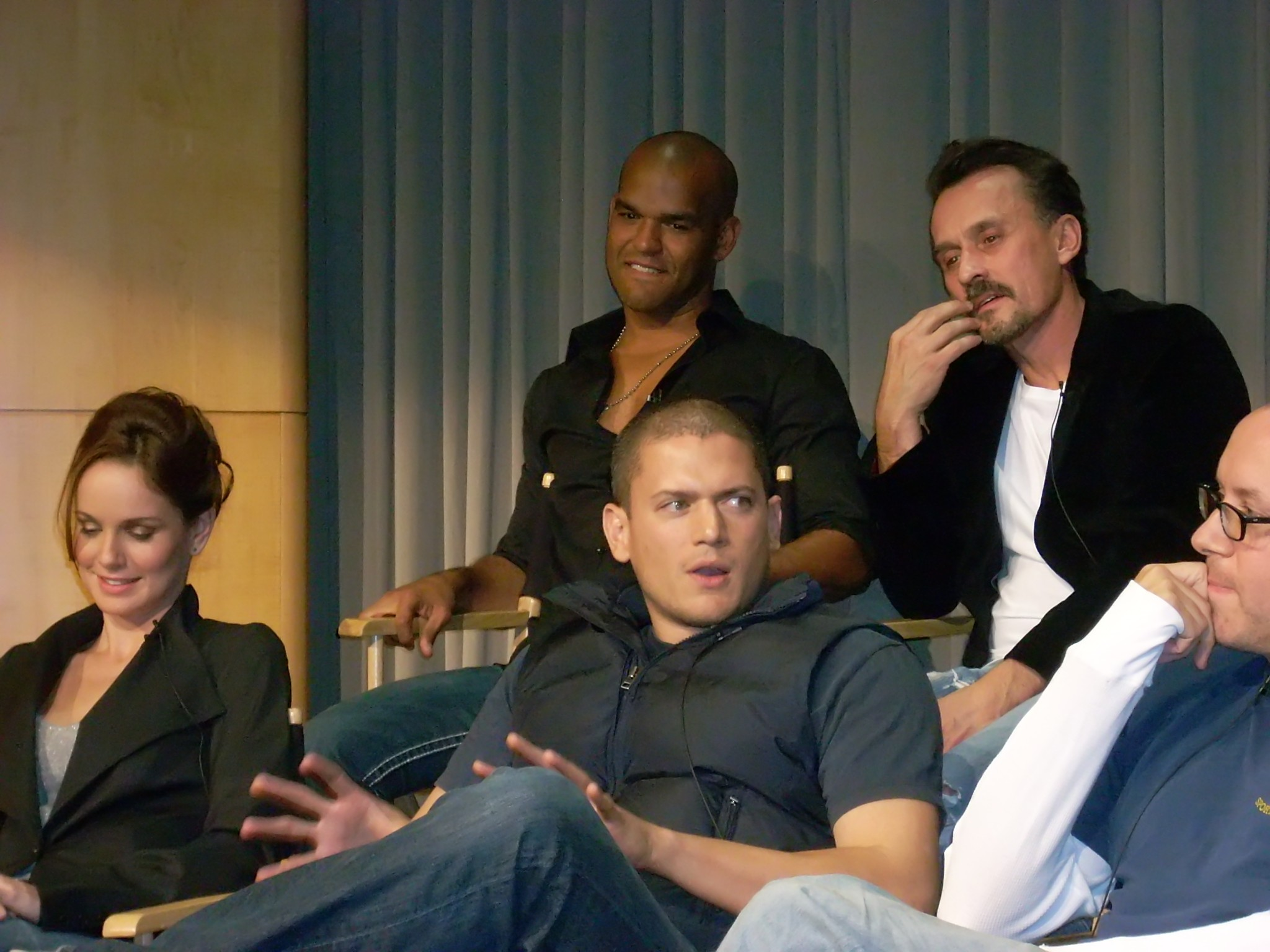 Amaury Nolasco, Robert Knepper, Sarah Wayne Callies, Wentworth Miller and Matt Olmstead at "Prison Break" at Paley Center for Media, Beverly Hills, California - Oct. 21, 2008